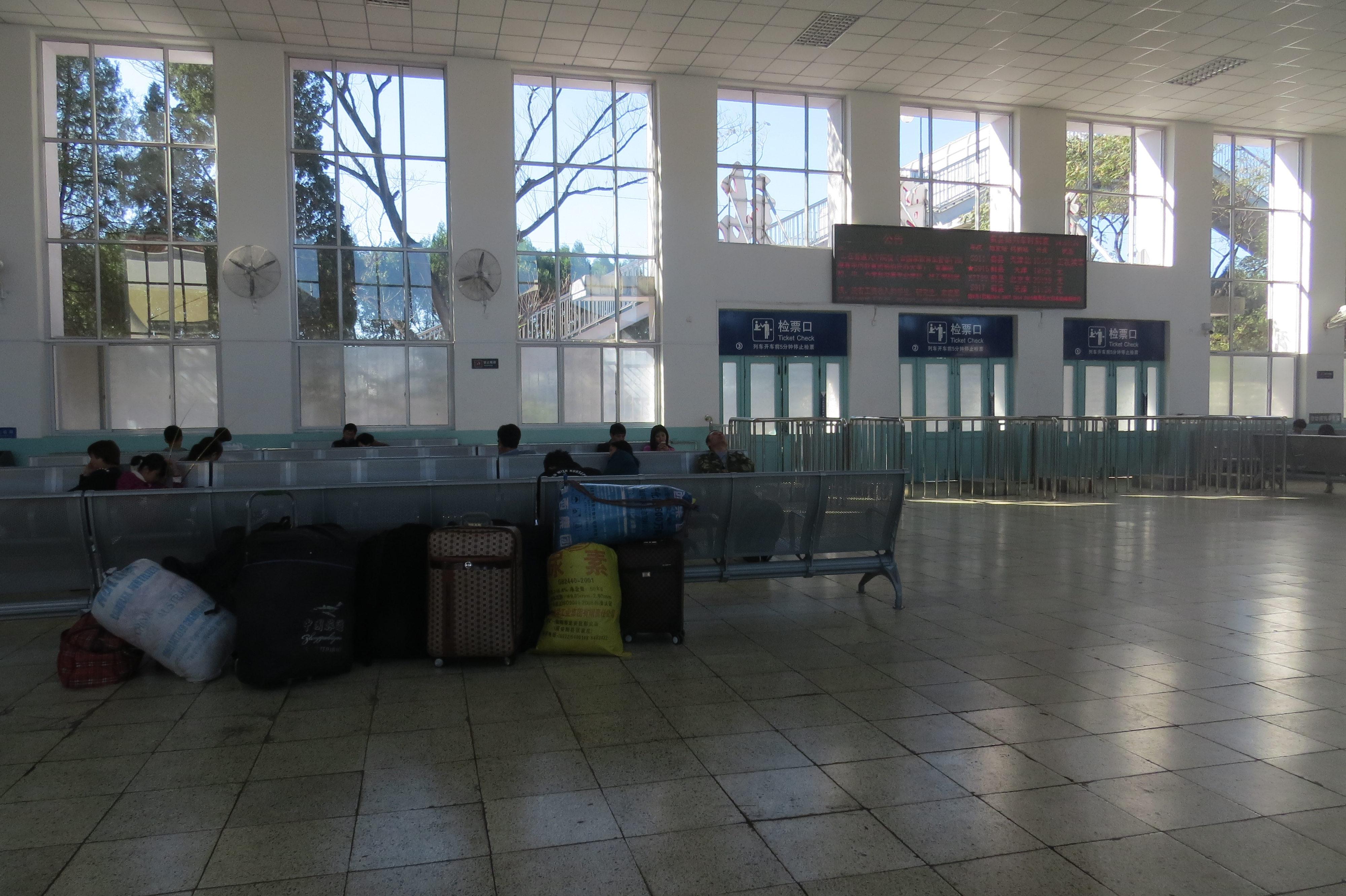 The waiting hall...